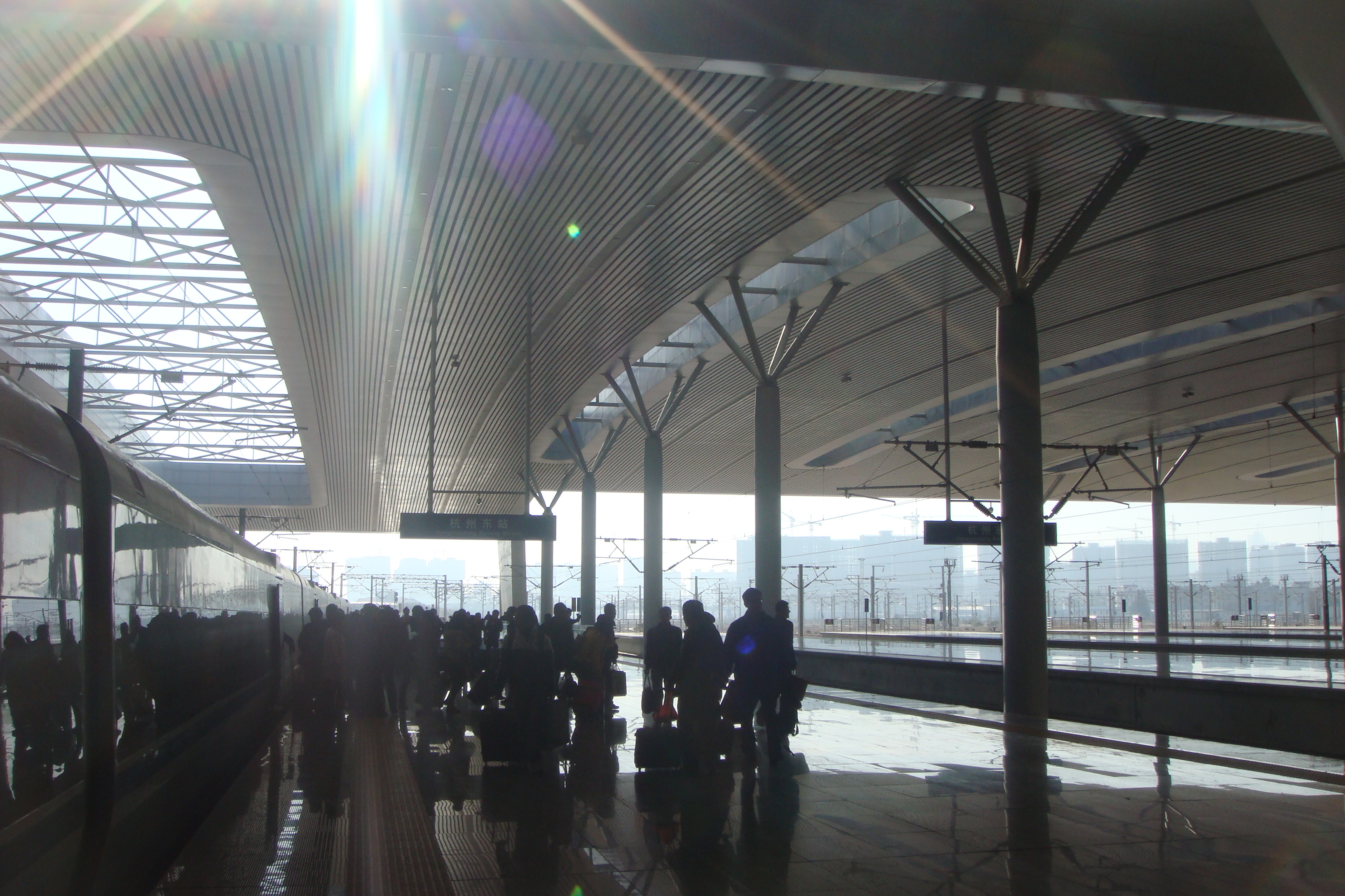 201401 D634 at Hangzhoudong Ordinary-Train-Yard